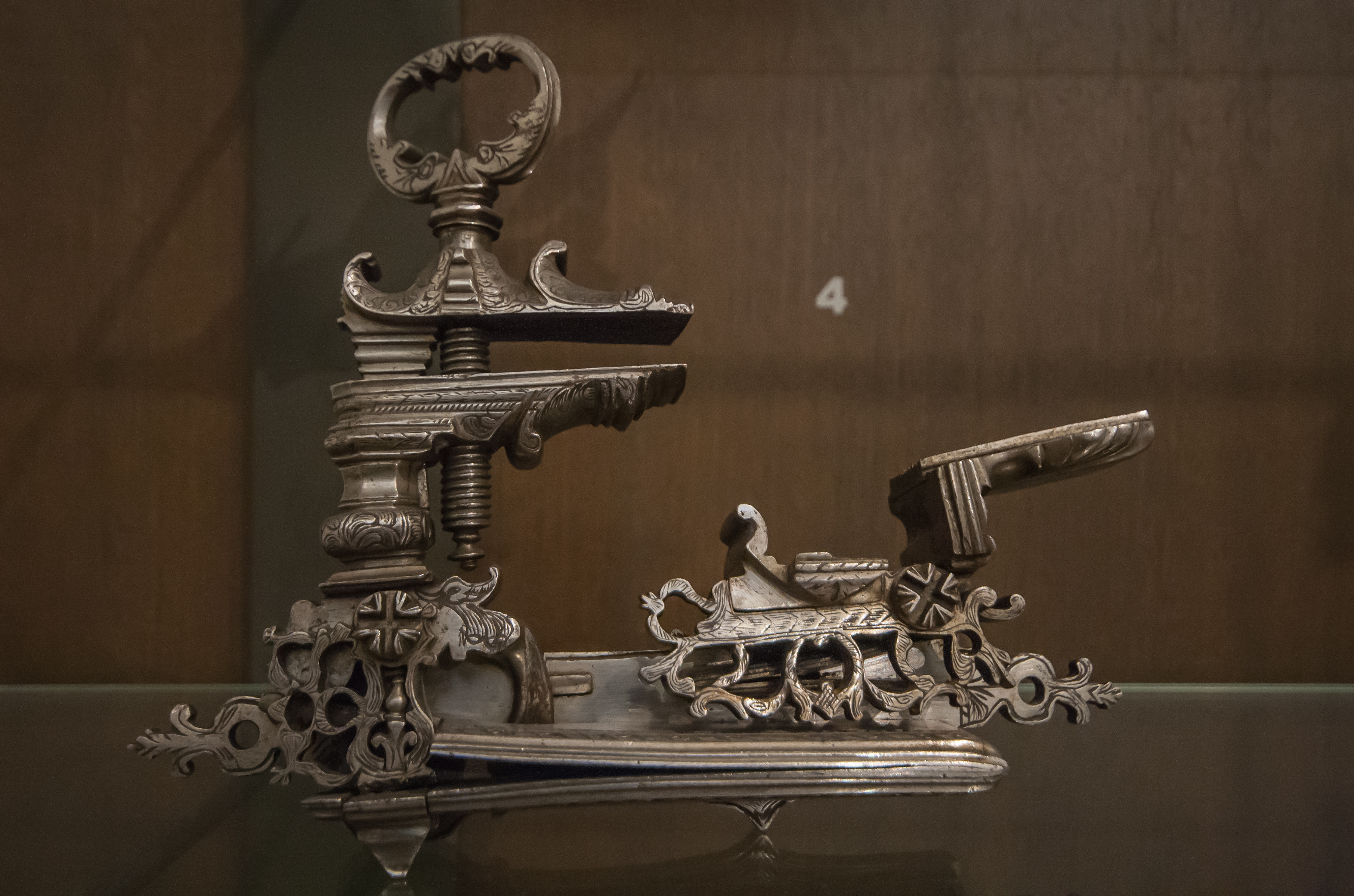 Flintlock Miquelet. Turkey XVIth century. Iron. Weapons Department, Museum of Art and Industry in Saint-Étienne, France.